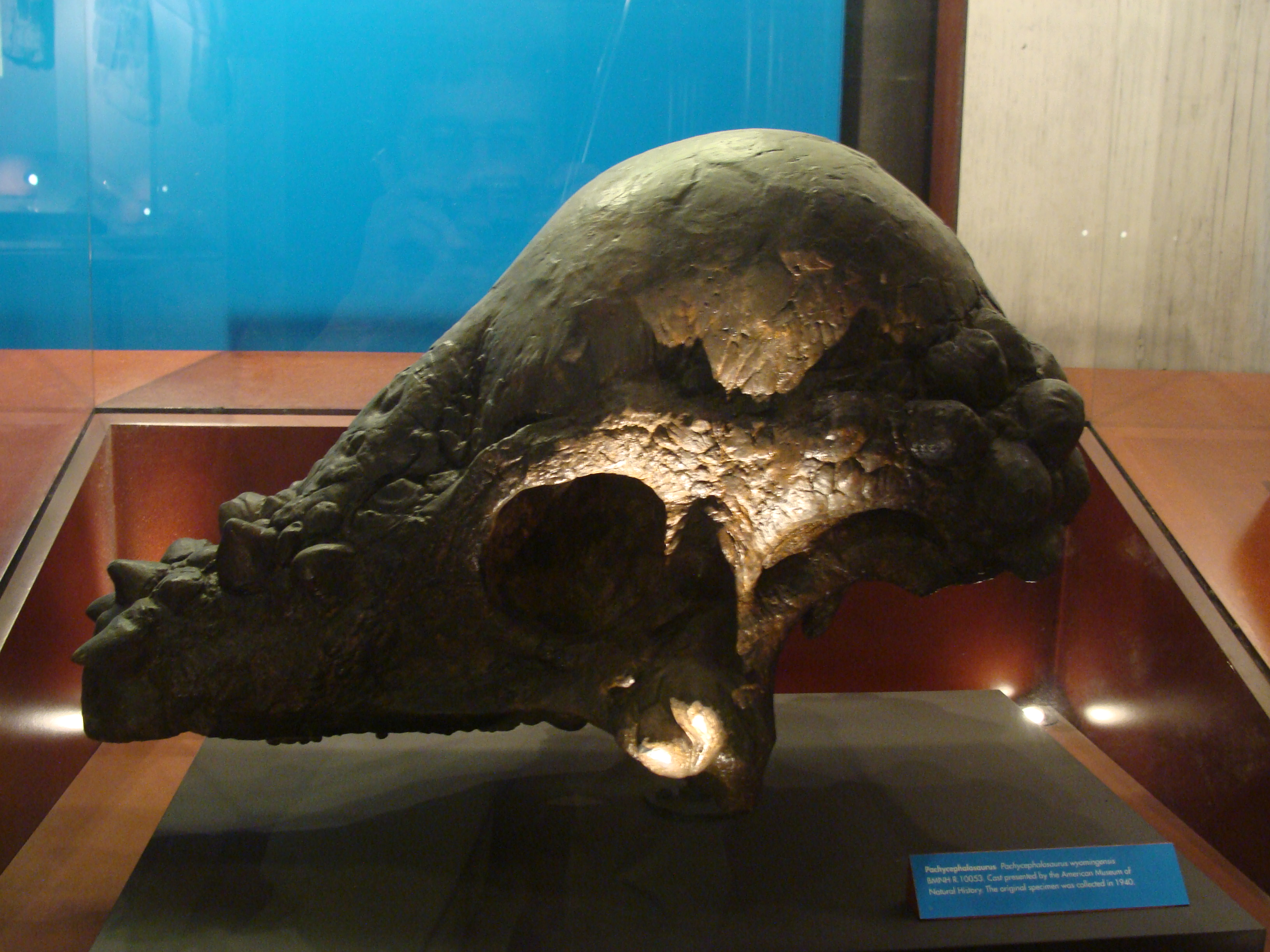 Pachycephalosaurus wyomingensis in the Natural History Museum of London